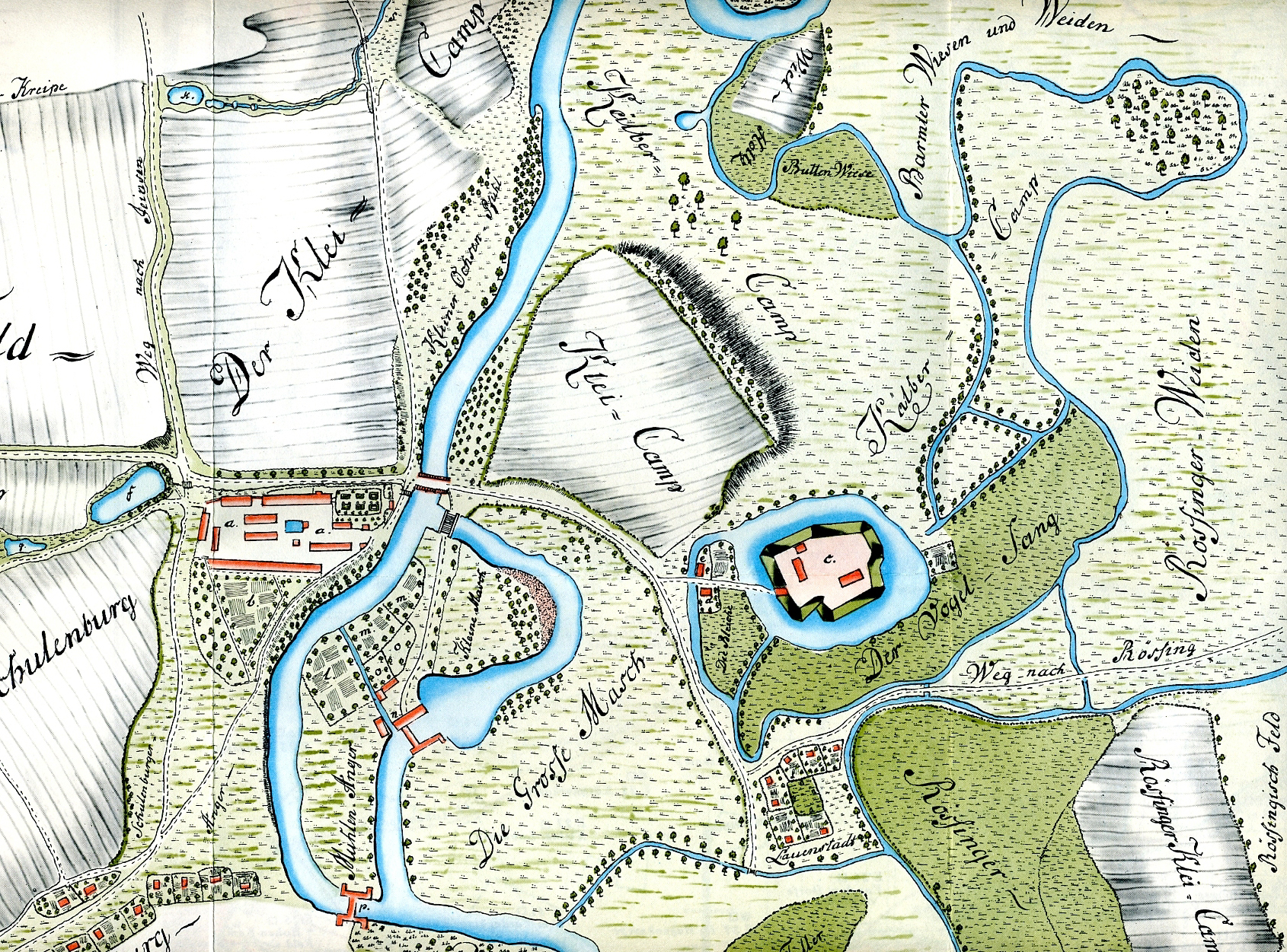 en: A 1771 map showing Calenberg, Lauenstadt and Schulenburg in the borough of Pattensen, Lower Saxony, Germany. The map is not north-oriented. Key: a. The Amt of Hof zu Calenberg; b. Kitchen and arboretum; c. Old castle of Calenberg; d. Licent–Bedienten accommodation; e. Deputat–Bedienten accommodation; f. Oehlmühle millpond; g. Little Pond; k. Posen Pond; l. The hop garden; m. Deputat garden; n. The mill; o. Garden; p. Water overshoot; q. The wells by the ponds